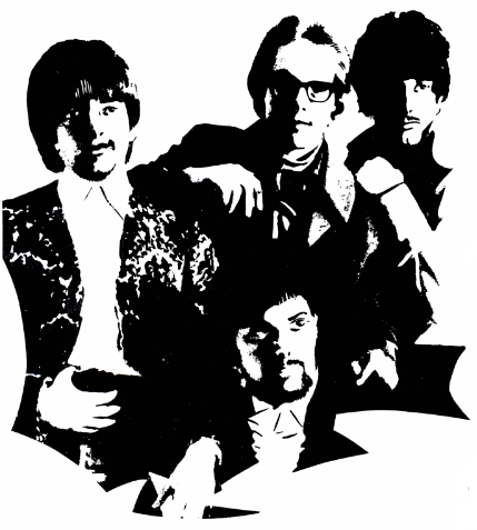 Trade ad for Vanilla Fudge's "Take me for a little while".